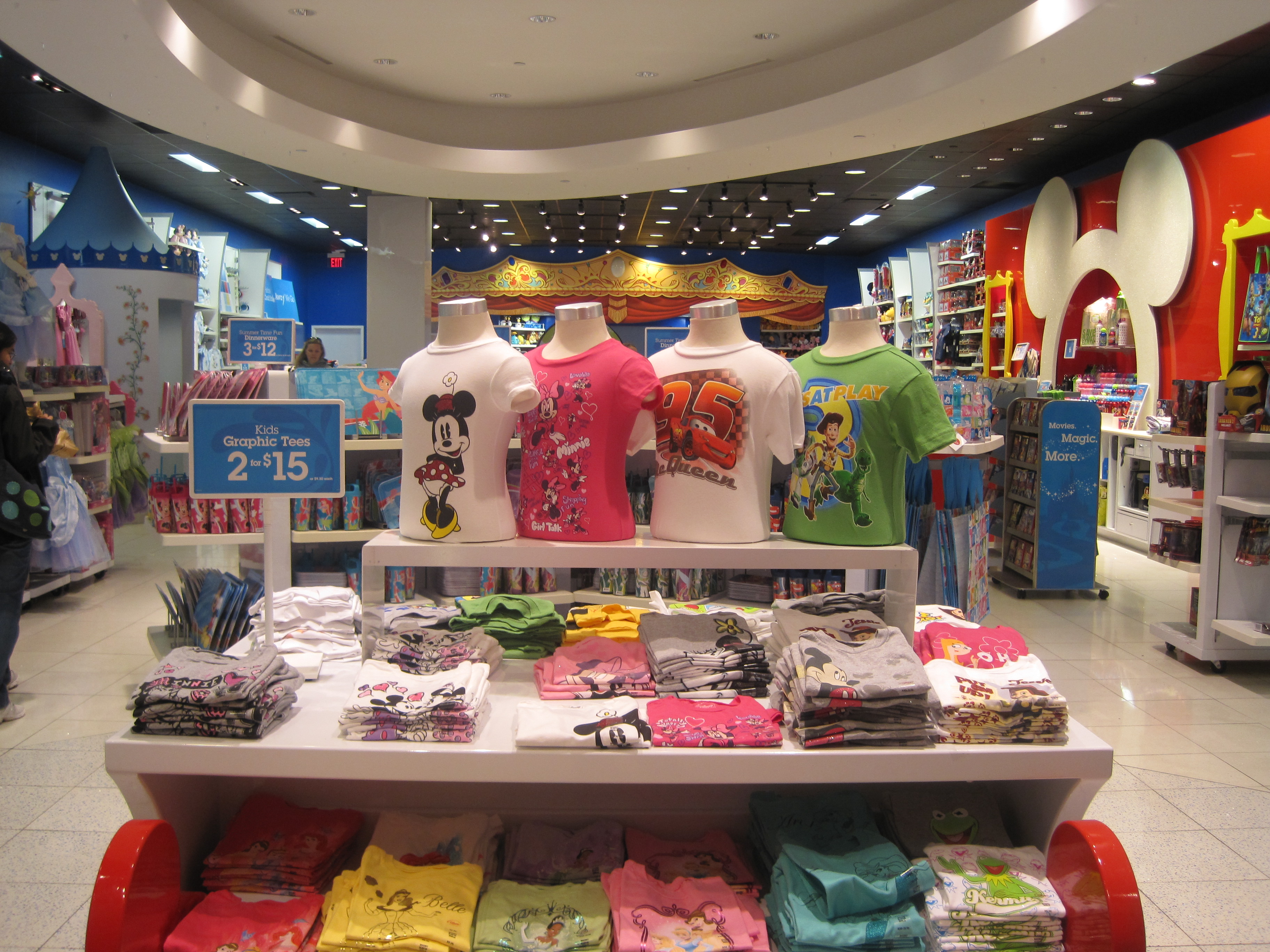 The Disney Store at Serramonte Center in Daly City, California.